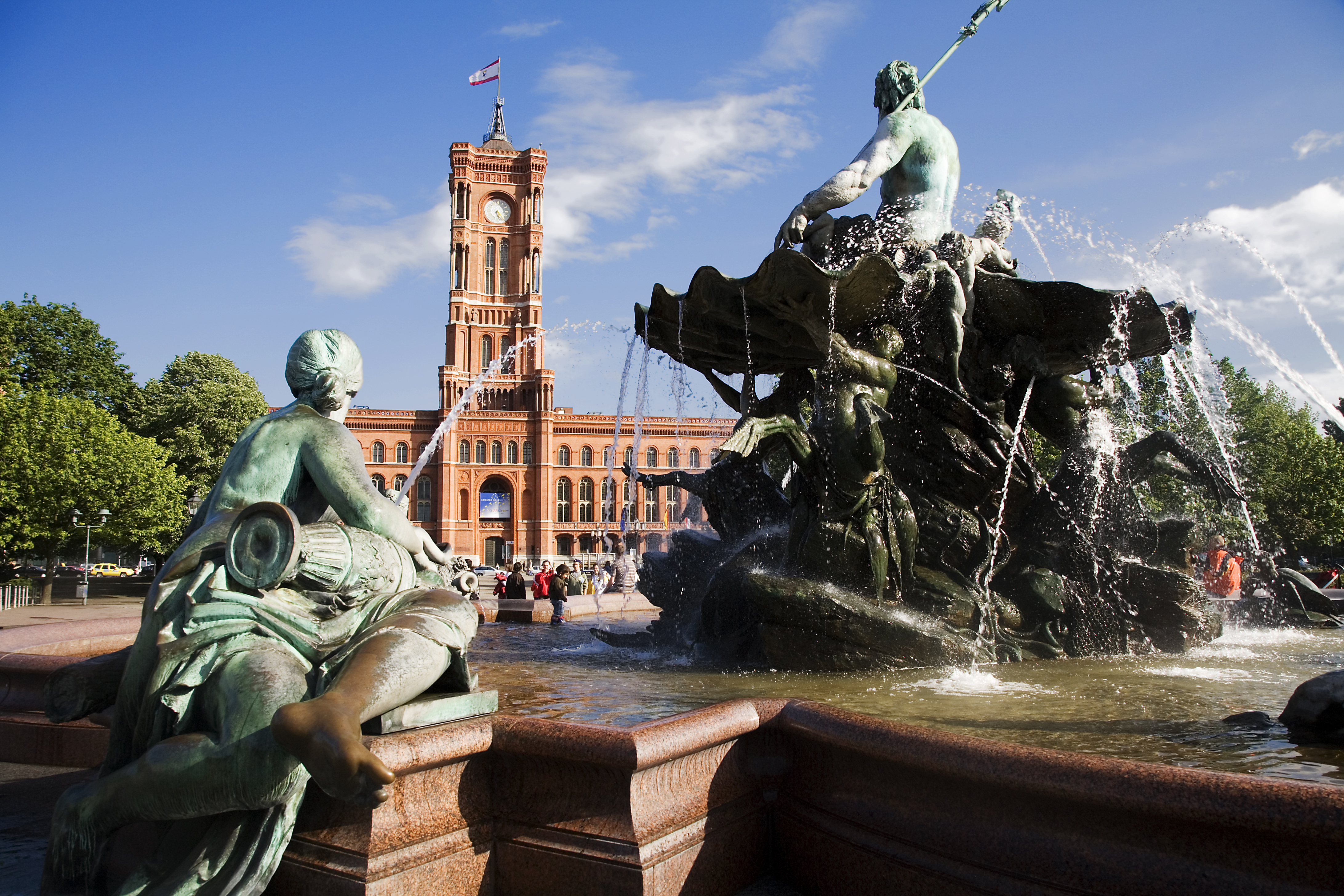 The Rotes Rathaus (Red Town Hall) with the Neptunbrunnen (Neptune fountain) in front . Berlin, Germany